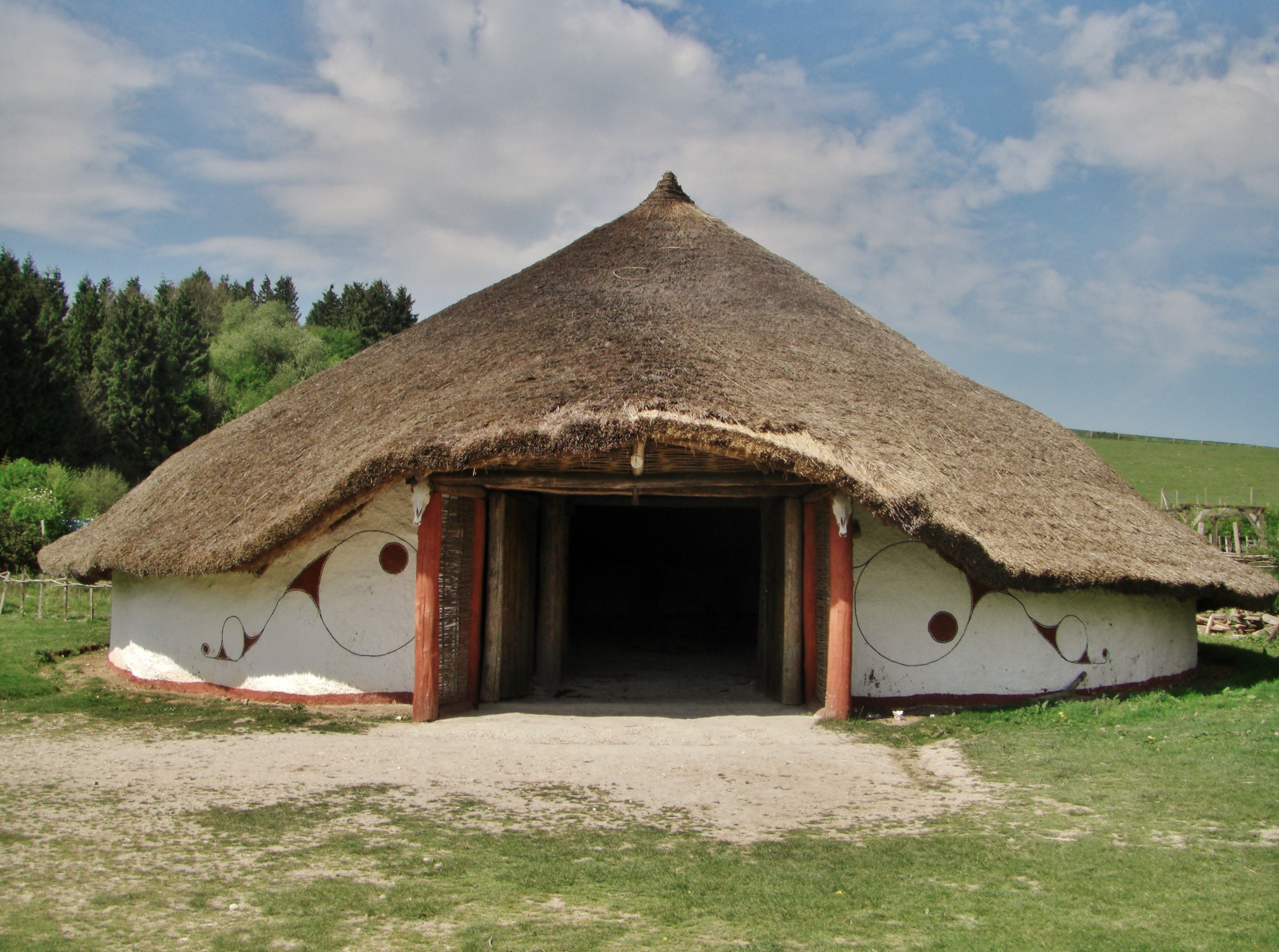 Little Woodbury, a reconstructed rounhouse at Butser Ancient Farm.